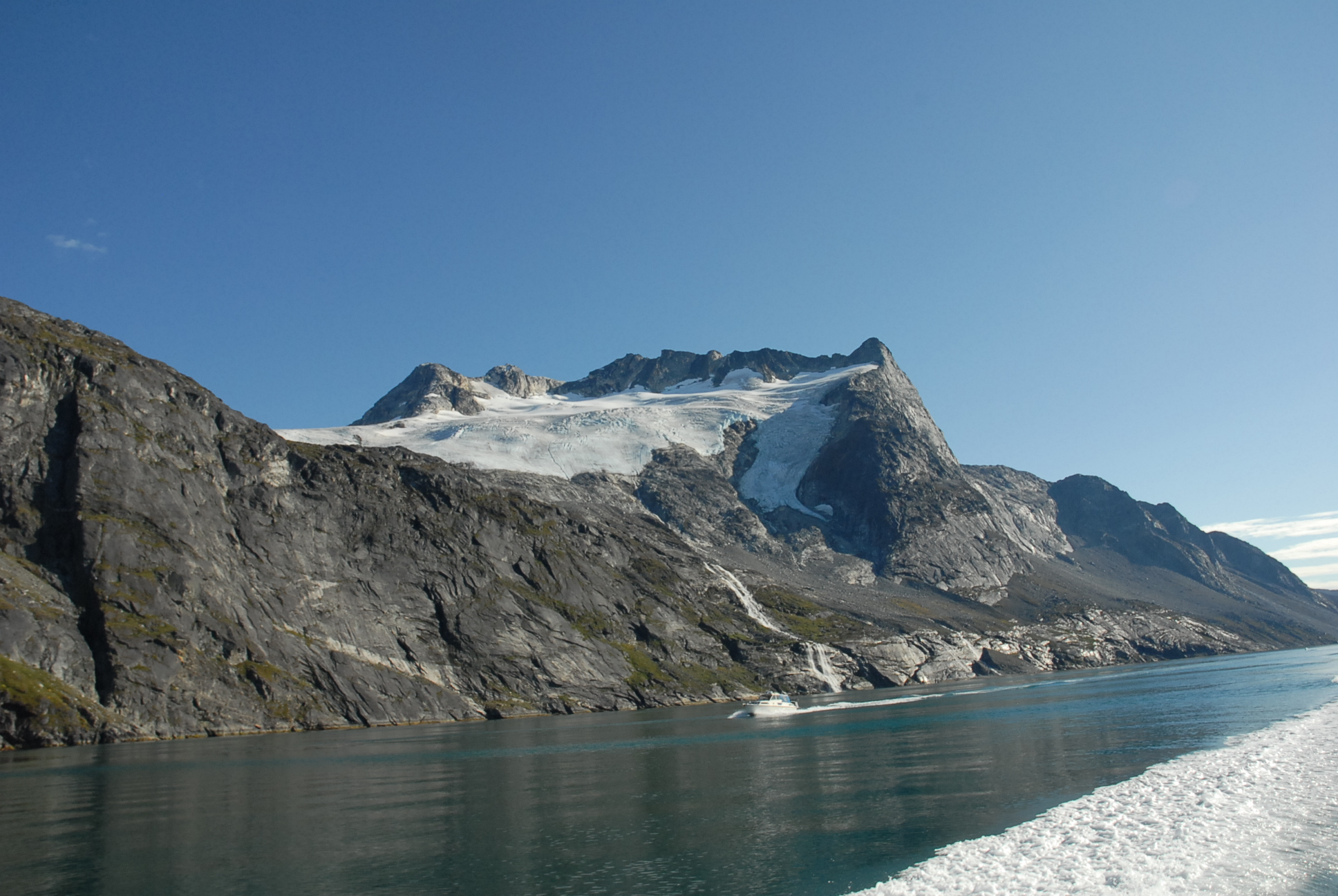 Photos by Manumina Lund Jensen 2010